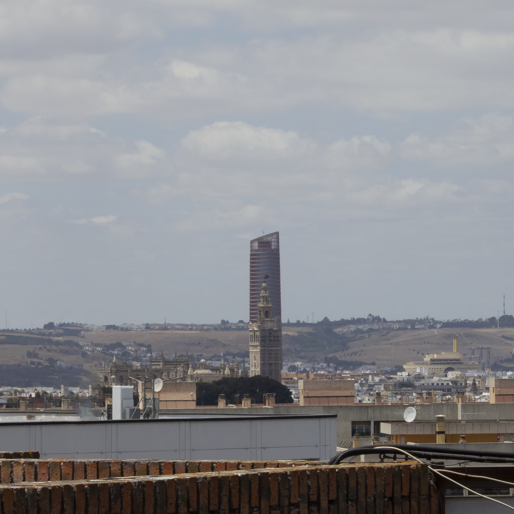 Picture taken from a rooftop with the two tallest towers in Seville aligned. It's useful to compare its height. At the background, the slope between Camas and Castilleja de Guzmán is observed.